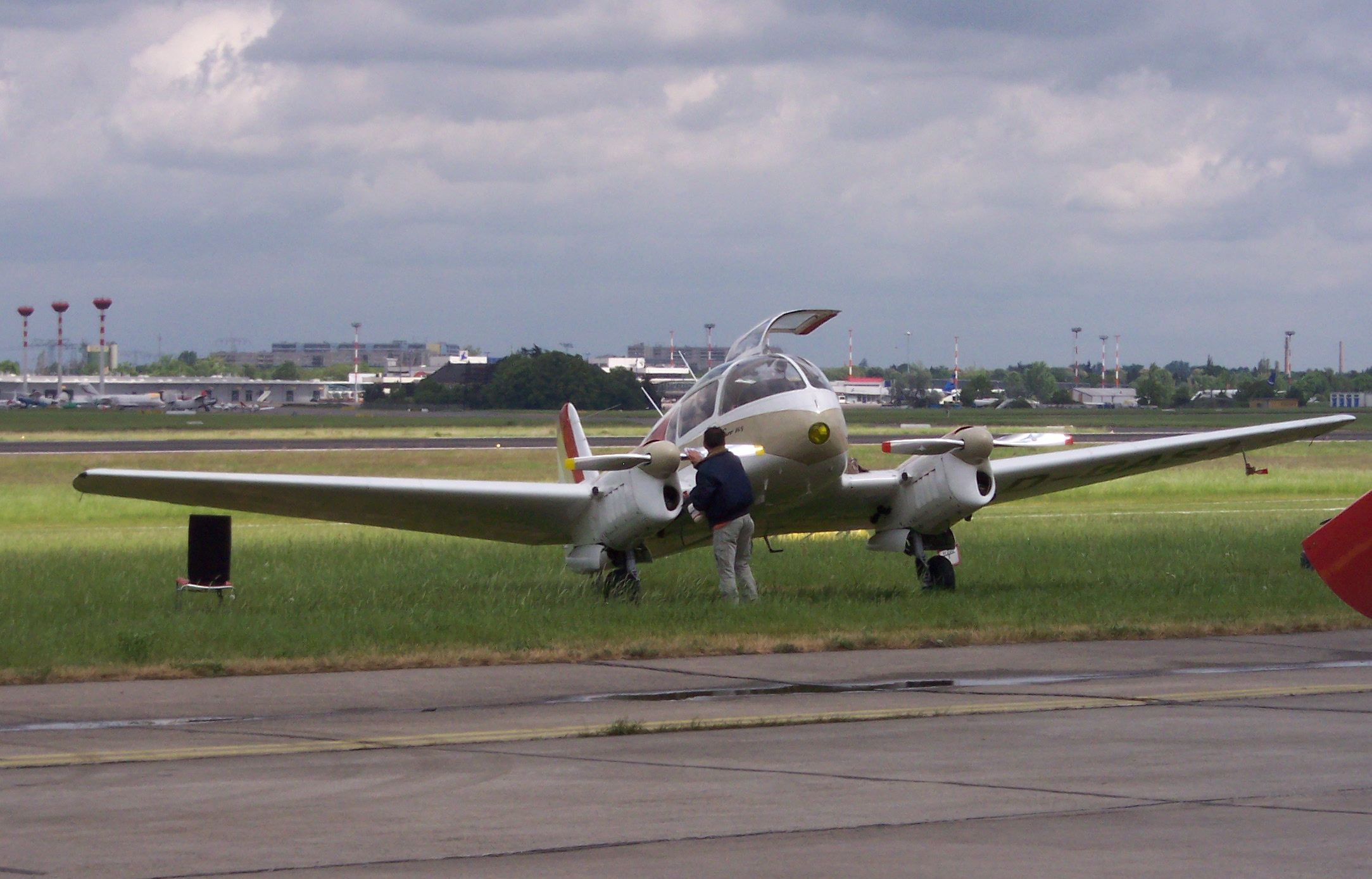 Let Aero Ae-145 Super Aero. Picture taken at ILA 2006 - The use of the picture may be restricted